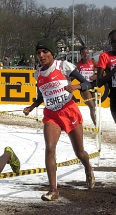 Shitaye Eshete at the 2013 IAAF World Cross Country Championships